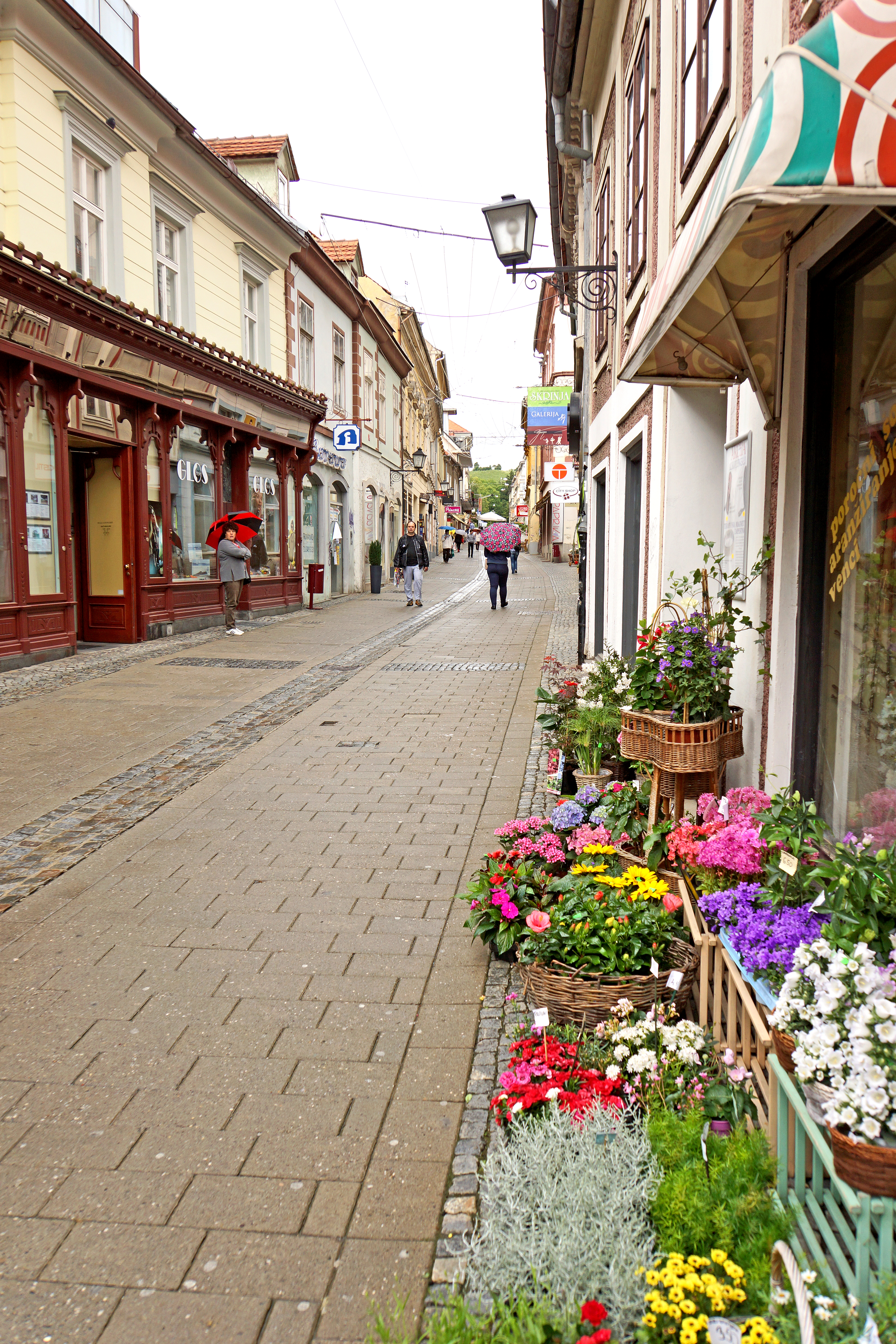 A Maribor Street Scene